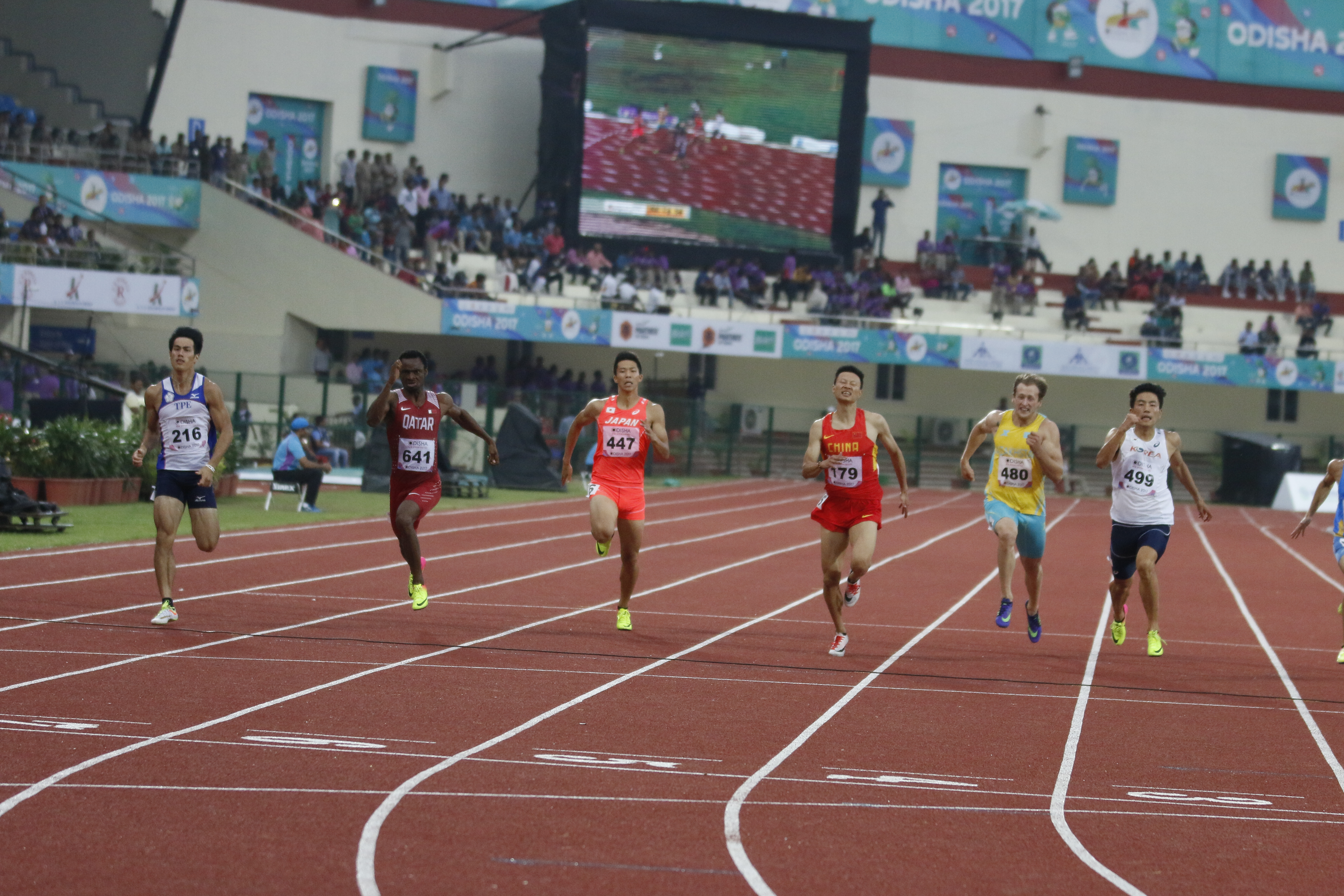 Athletes during 22nd Asian Athletics Championships in Bhubaneswar.